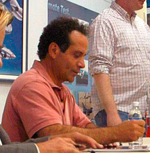 EDWARDS AIR FORCE BASE, Calif. -- Tony Shaloub signing autographs at Edwards AFB. More than 200 people received autographs from the cast of NBC Universal and USA Network's show "Monk" here Sept. 9. The cast and crew wrapped-up a two-day filming of a new episode scheduled to air on USA Network in January 2006.